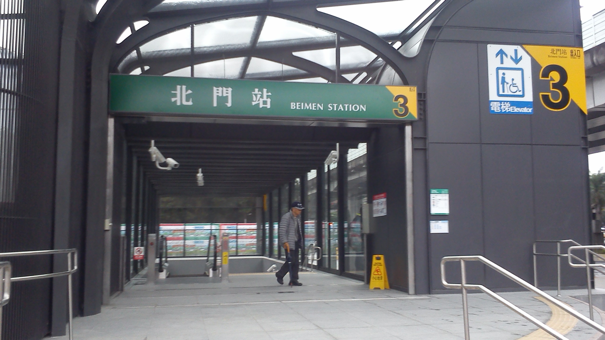 Taipei Metro Beimen Exit 3 (nearly)